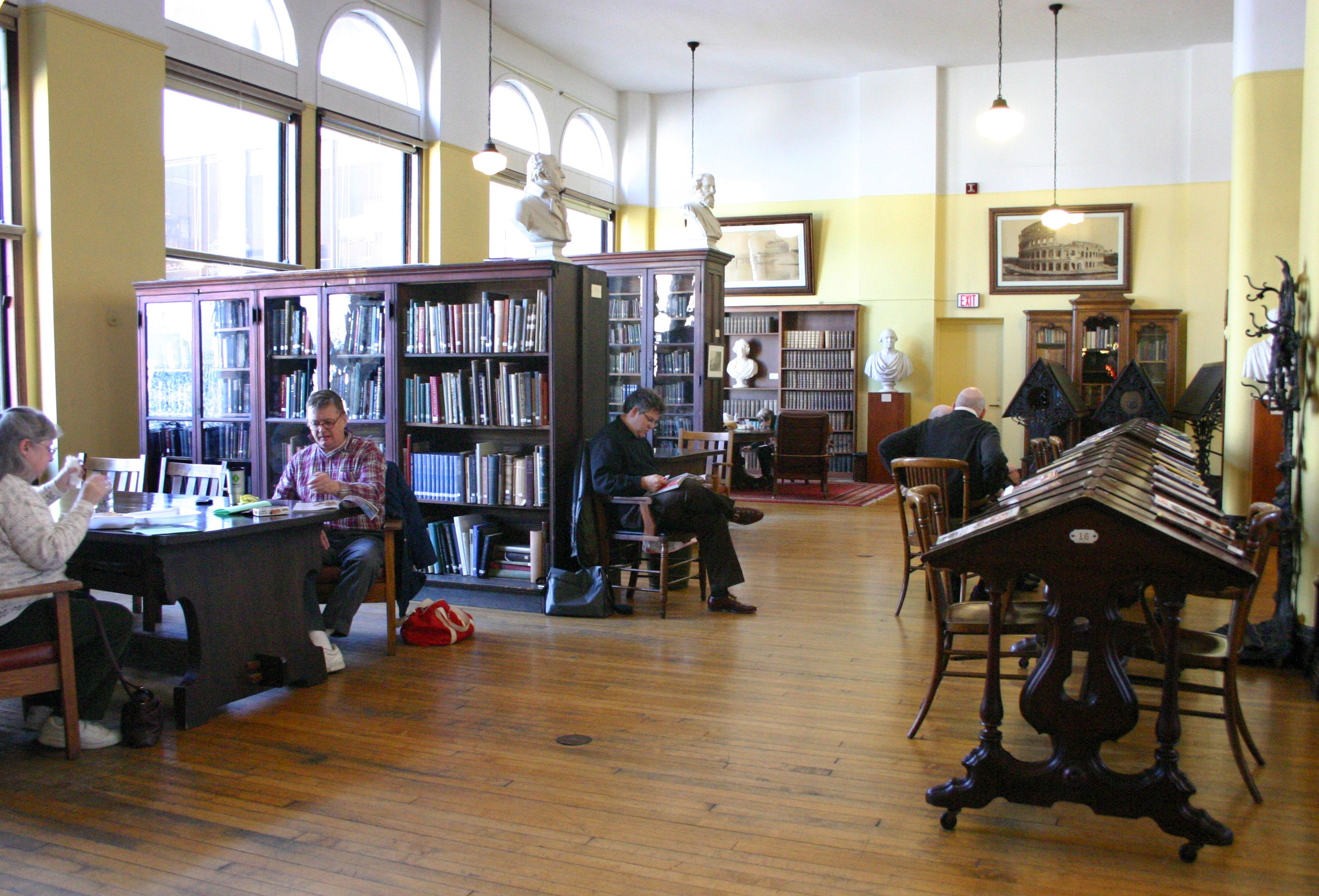 Members and visitors peruse items at the Mercantile Library in downtown Cincinnati.